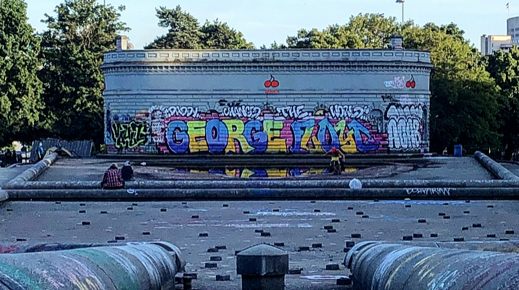 Example of the street art created in Seattle’s Capitol Hill Autonomous Zone/Organized Protest (CHAZ/CHOP). This “George Floyd” mural was painted during the occupation at Lincoln Reservoir in the zone’s Cal Anderson Park. Photo originally taken 25 June 2020, six days before CHAZ/CHOP was dispersed by Seattle police and officials.